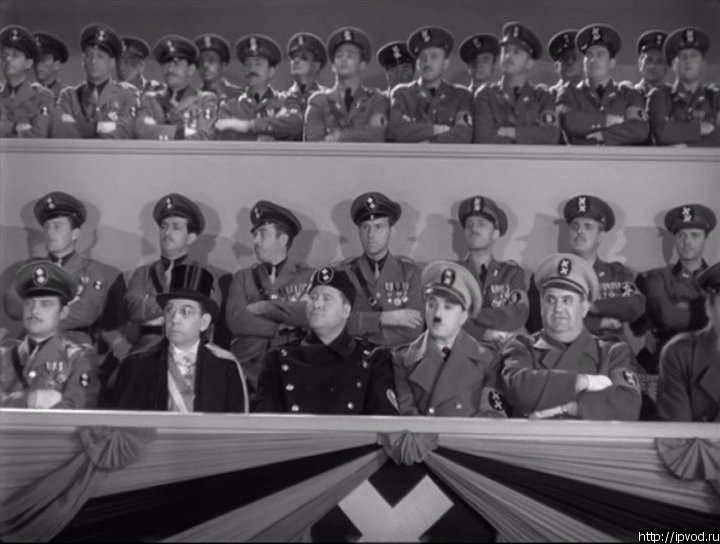 Charlie Chaplin from the film The Great Dictator (1940).